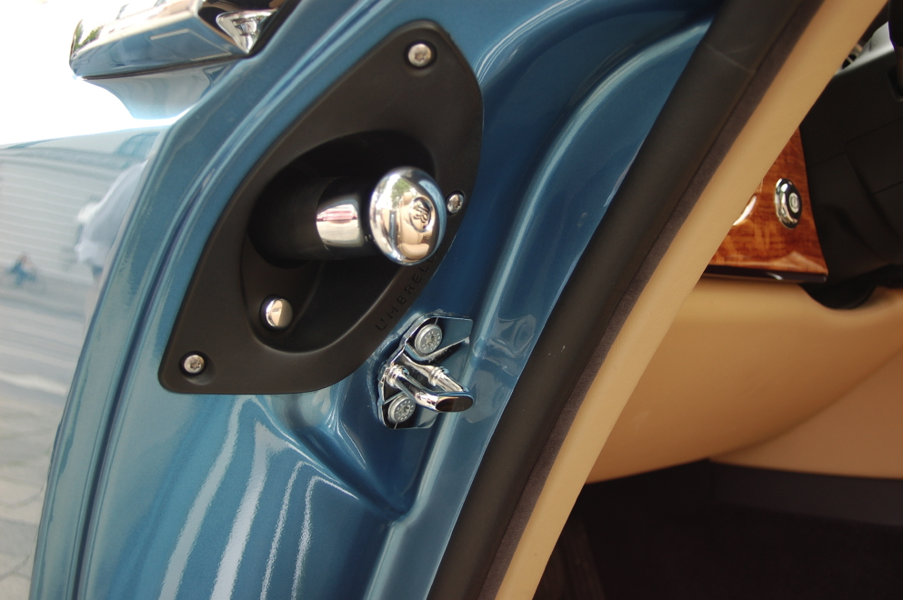 Rolls-Royce New Phantom Drop Head Coupe (DHC)